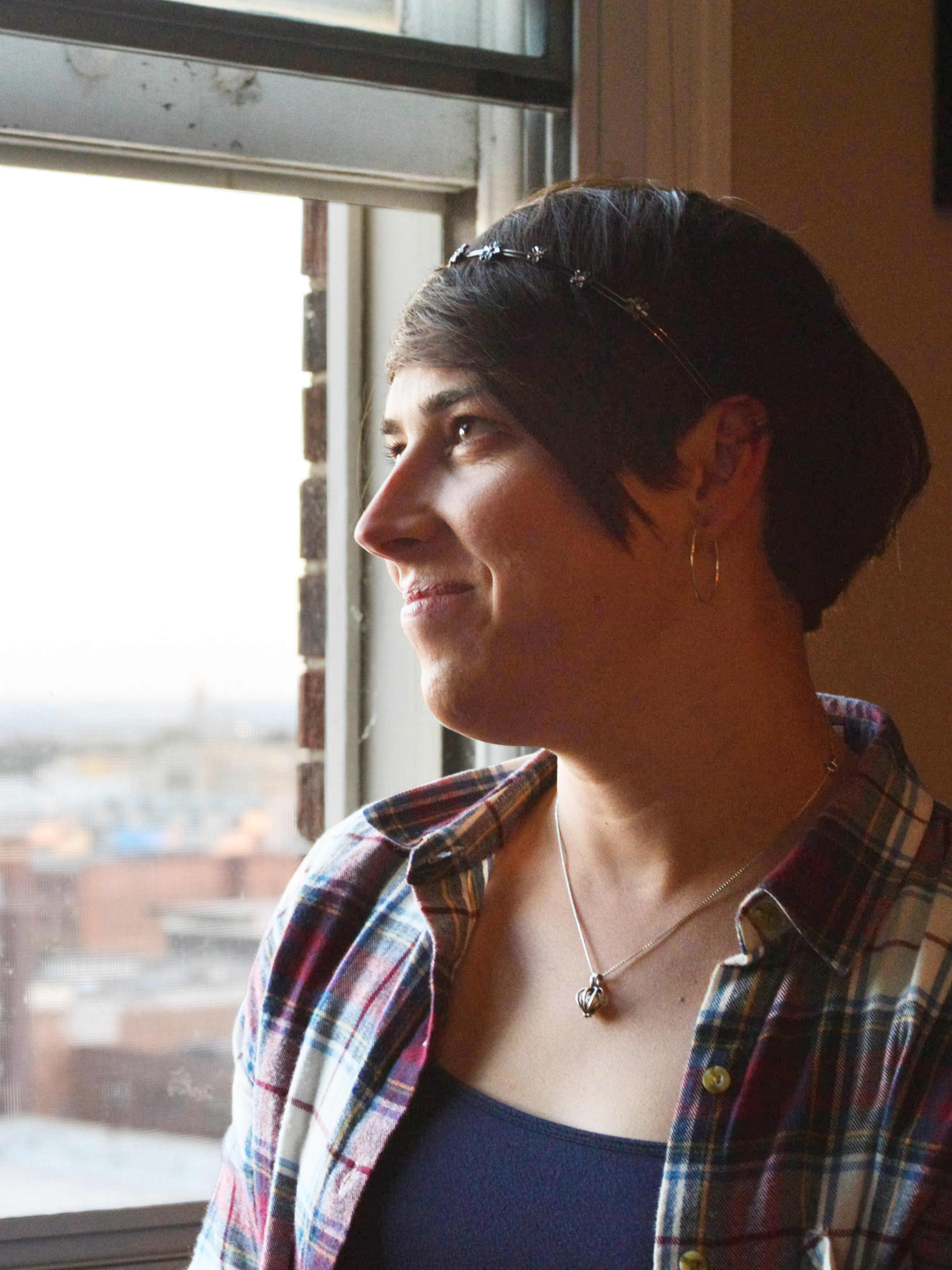 Photo subject is an openly serving transgender Airman